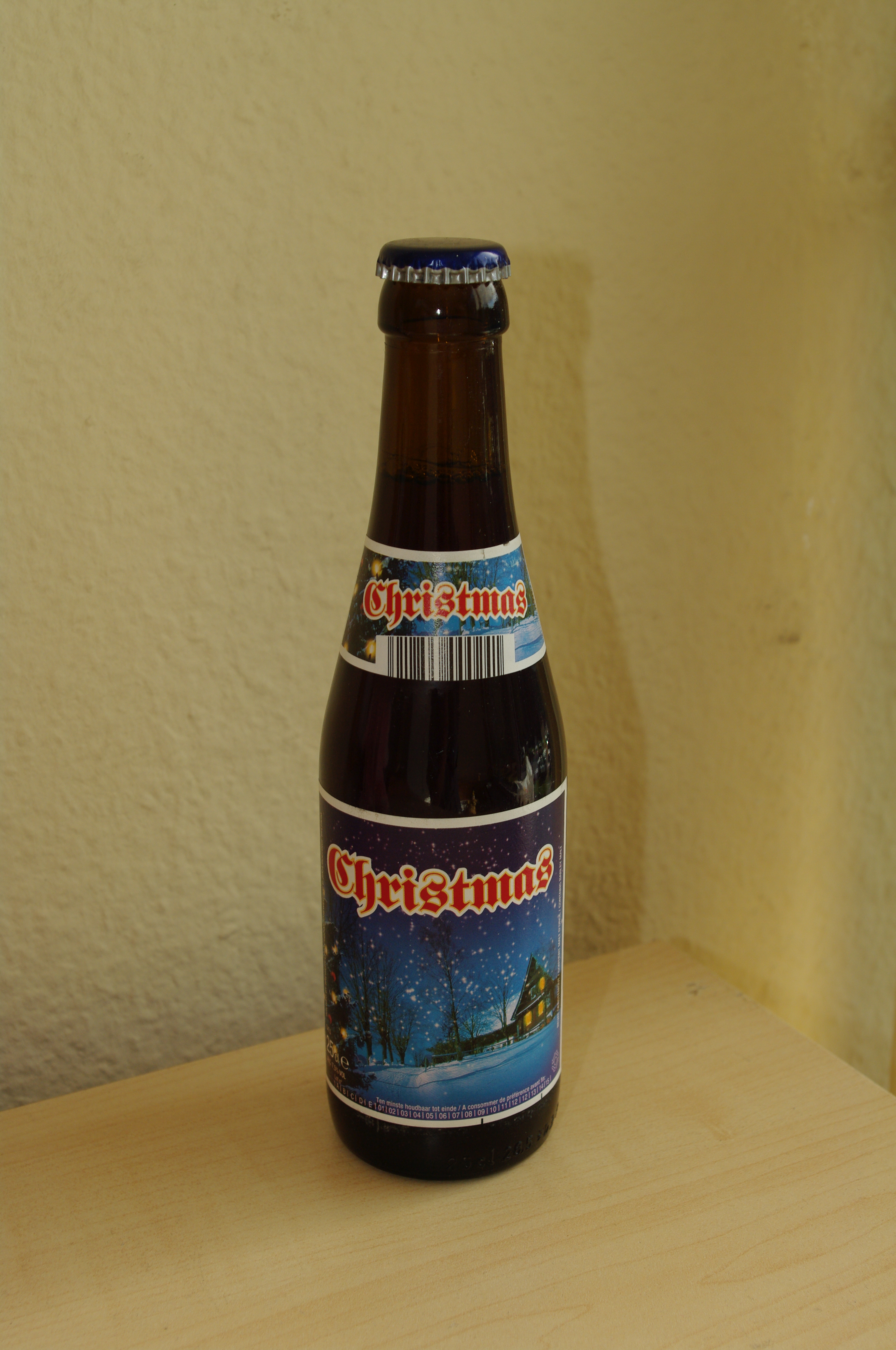 Christmas beer from Leroy brewery